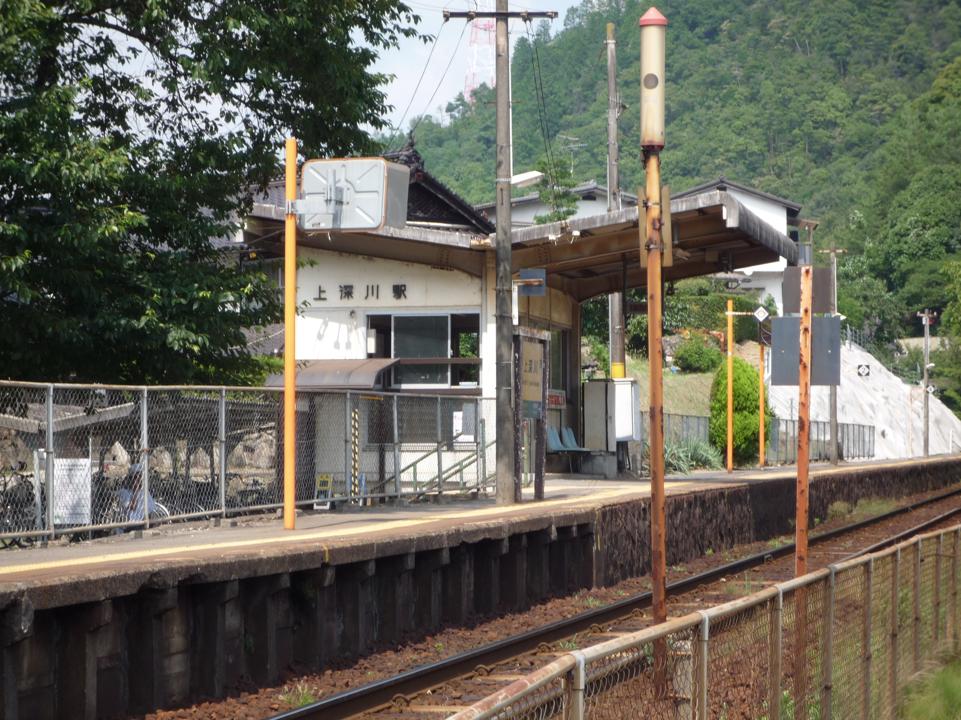 Kami-Fukawa Station